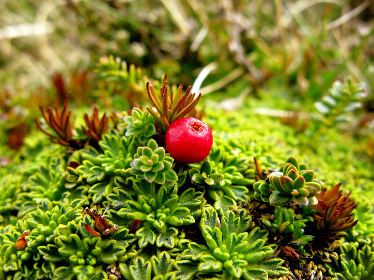 Diddle-dee